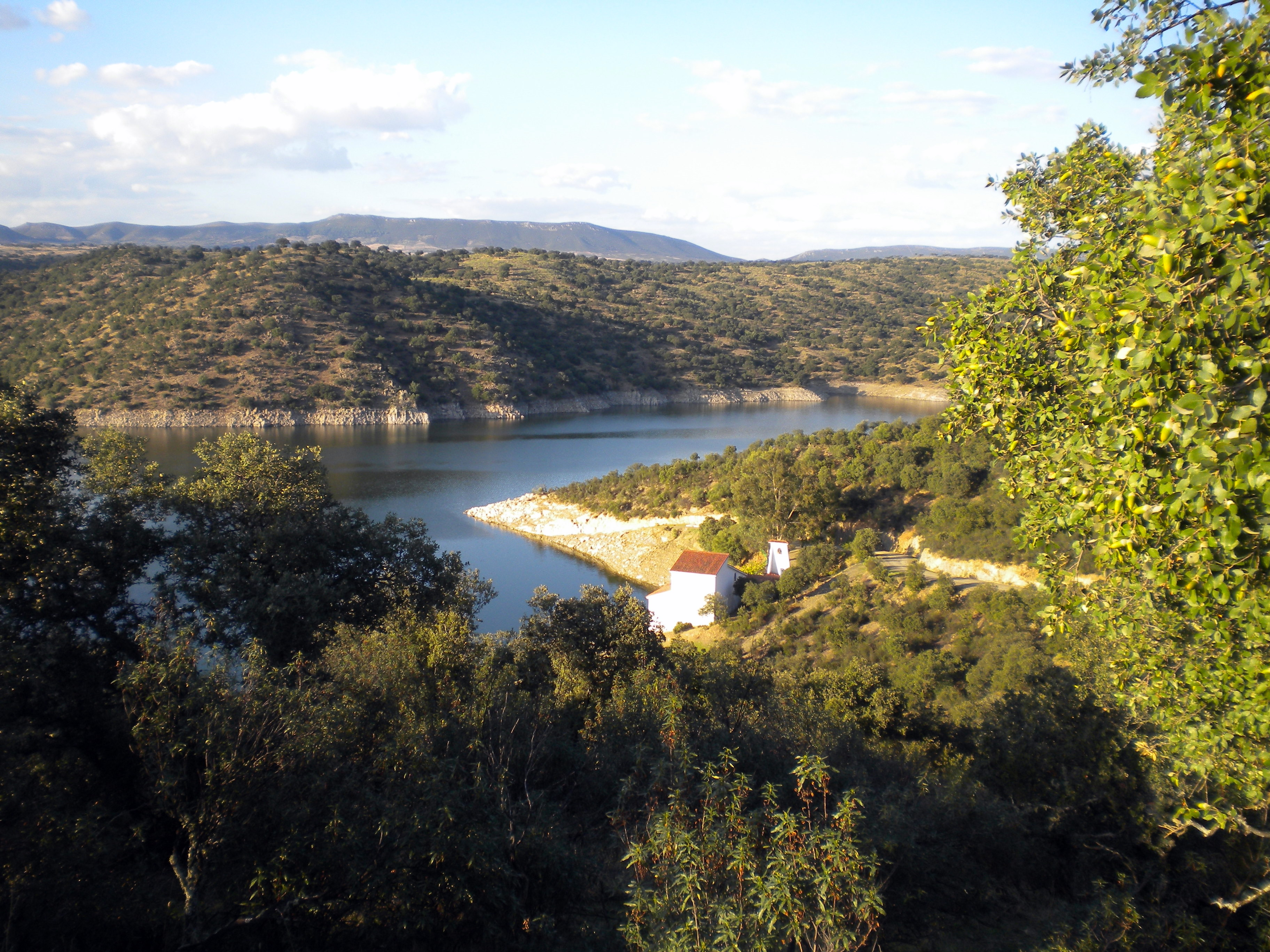 River Tagus and hermitage of Our Lady of the River in Talaván (Extremadura, Spain)